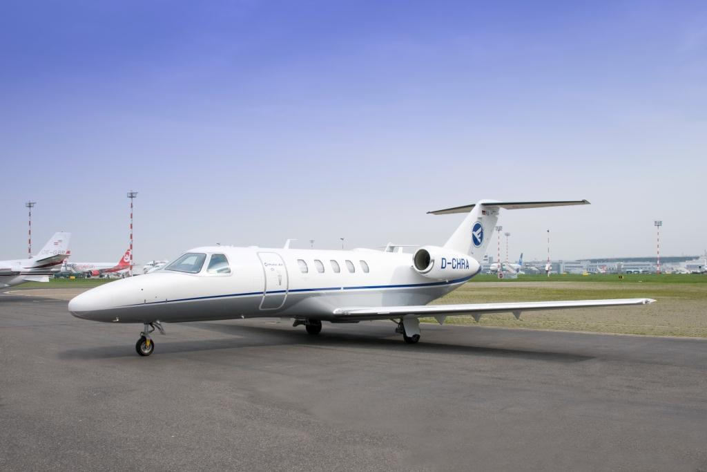 Cessna CJ-4 of Hahn Air parking at Düsseldorf International Airport, Germany.